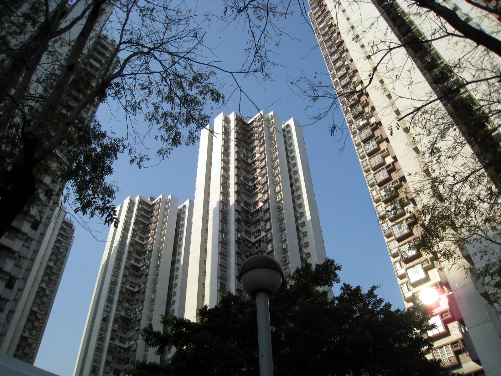 HK Broadview Garden